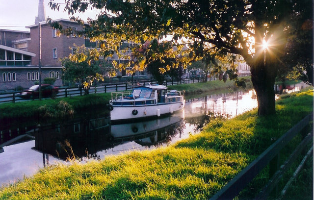 Grand Canal, Tullamore Wooden cruiser heads east on the canal at Convent Road, Tullamore.